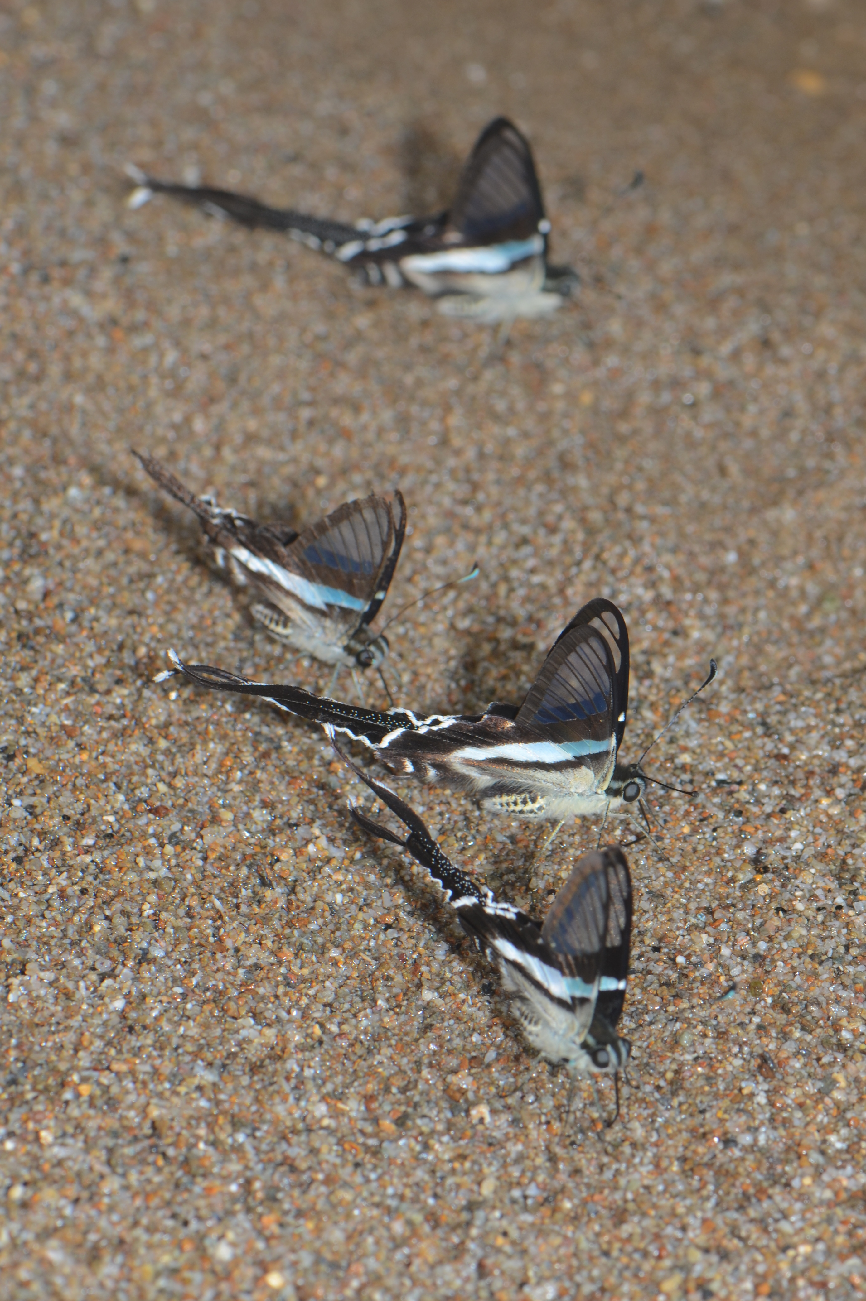 Thanks to Gerry for ID help